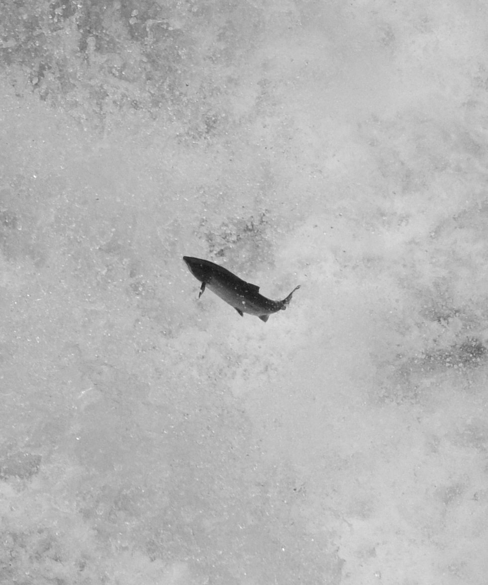 Salmon leaping at the Falls of Shin, Scotland